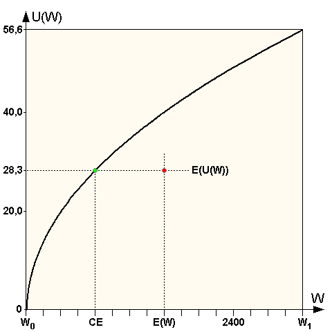 Risk aversion, type 1, case 4